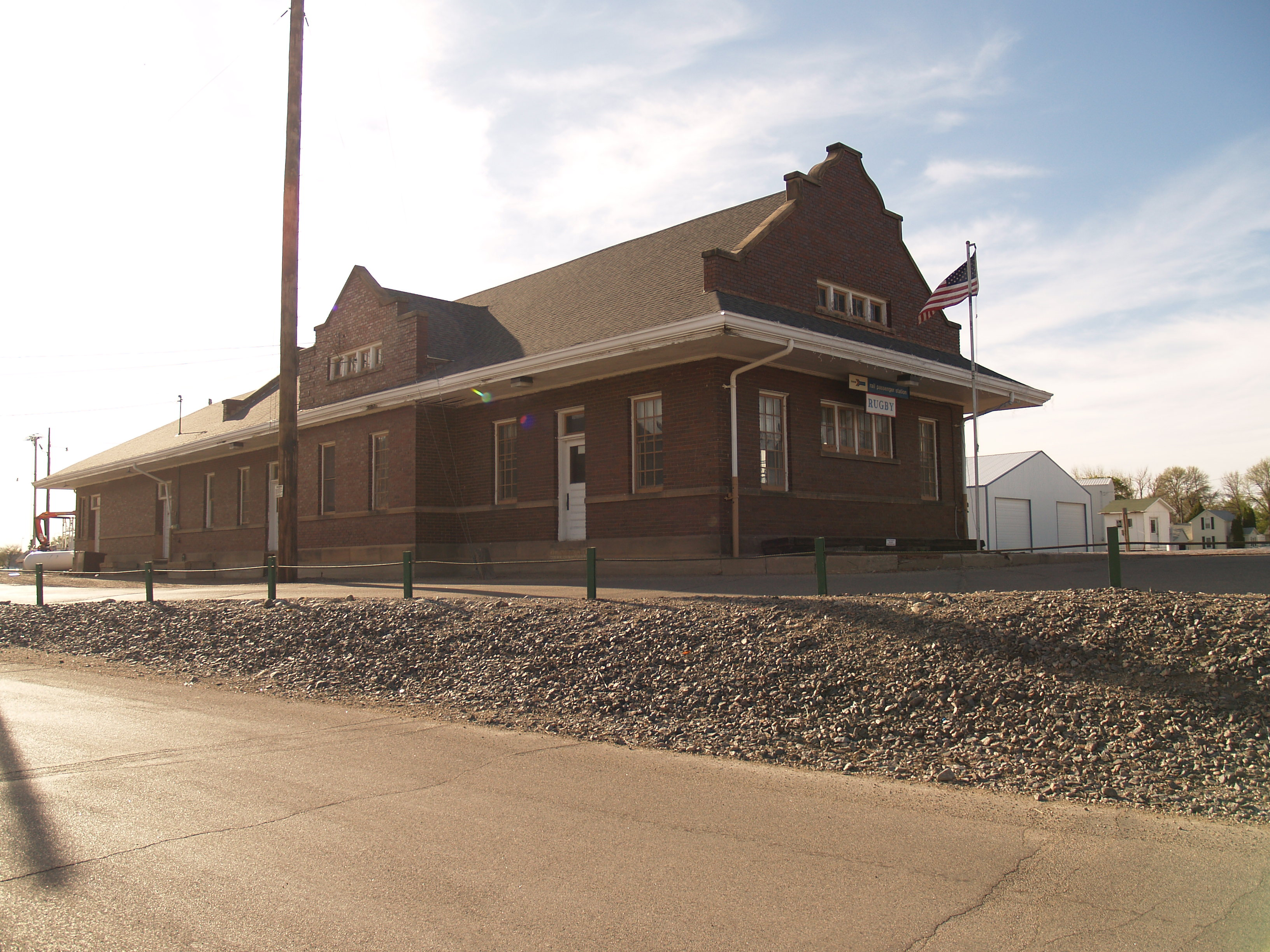 The Amtrak station in Rugby, North Dakota.